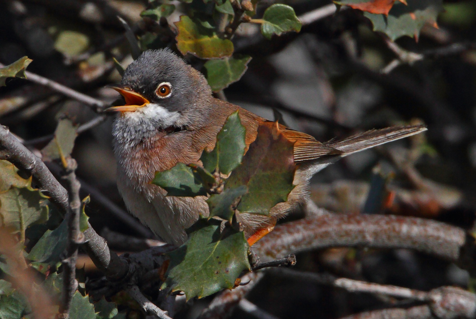 Spectacled Warbler Sylvia conspicillata, Ávila, Spain